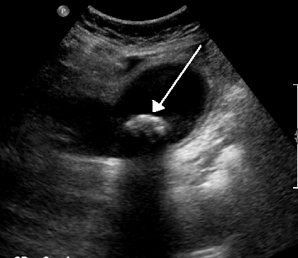 A 1.9 cm gallstone impacted in the neck of the gallbladder and leading to cholecystitis. Note the 4 mm gall bladder wall thickening.